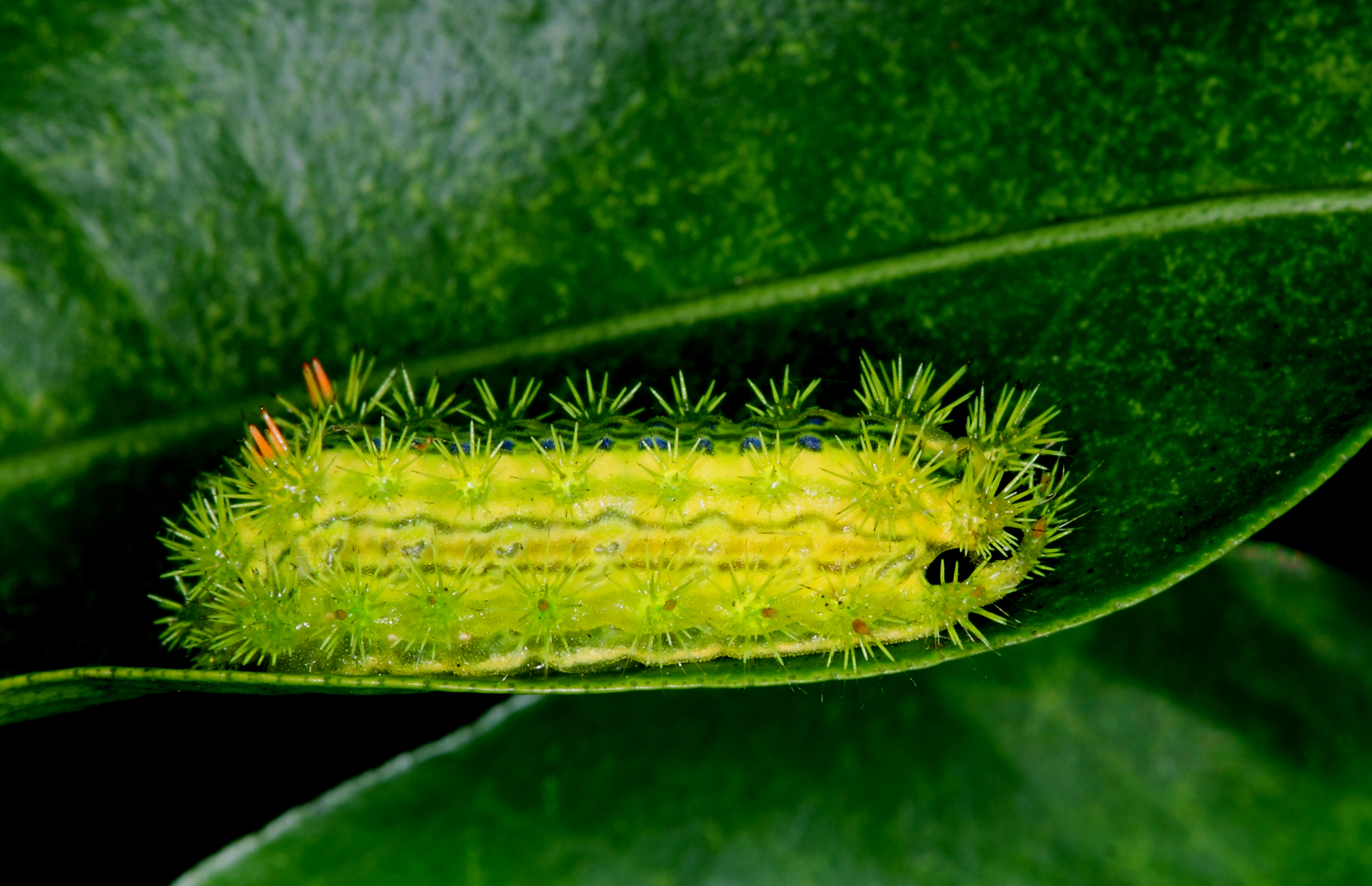 Larva_of_Parasa_lepida